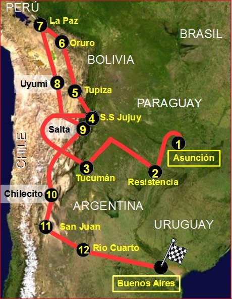 Rally Dakar 2017- Complete Route